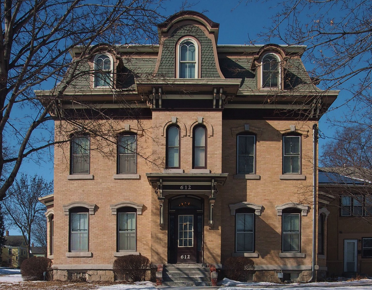 VanDyke-Libby House, 612 Vermillion St, Hastings, Minnesota, USA. Viewed from the east.